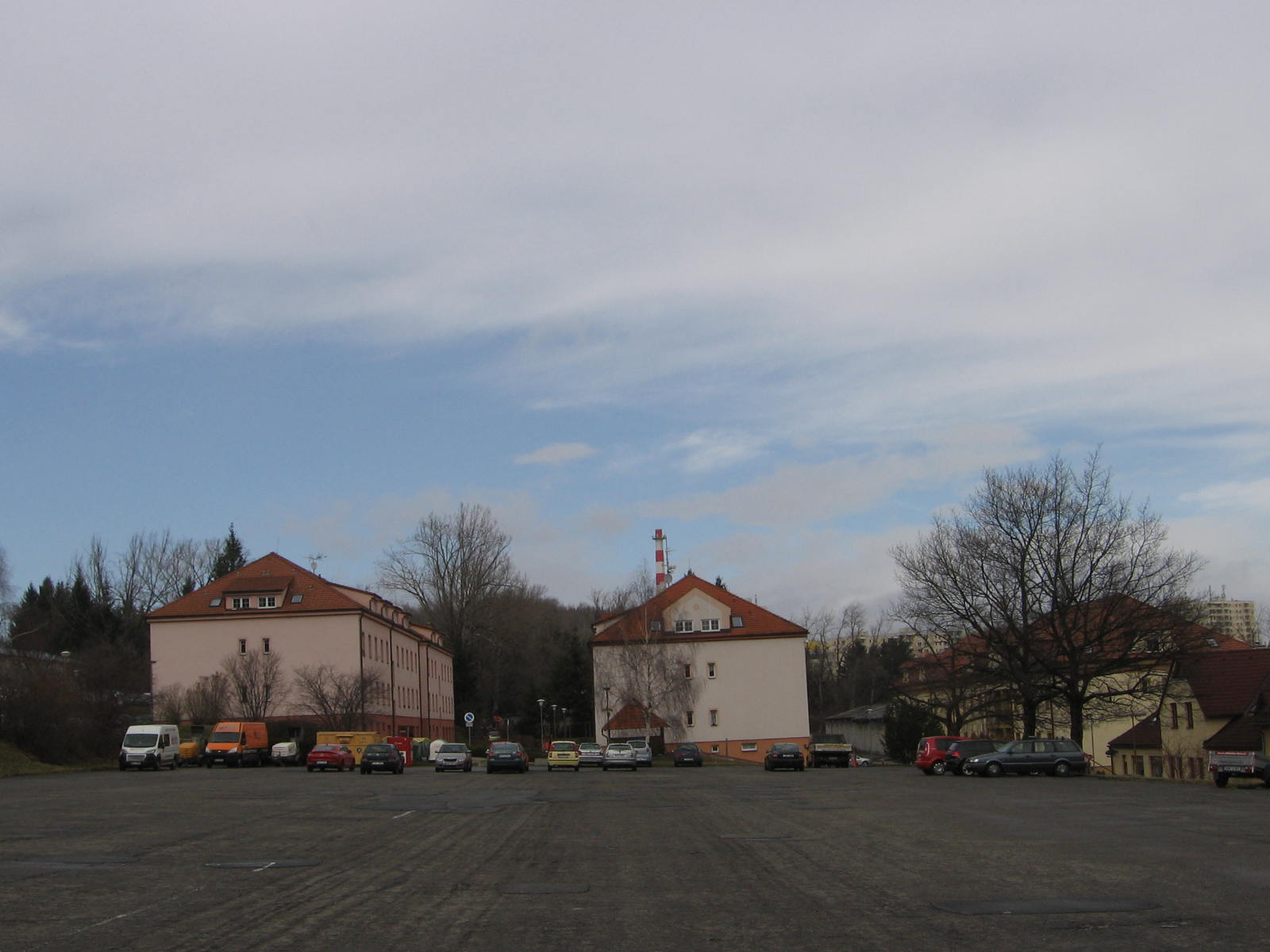 Former Barracks of the 62nd Motor Rifle Regiment in Prachatice.